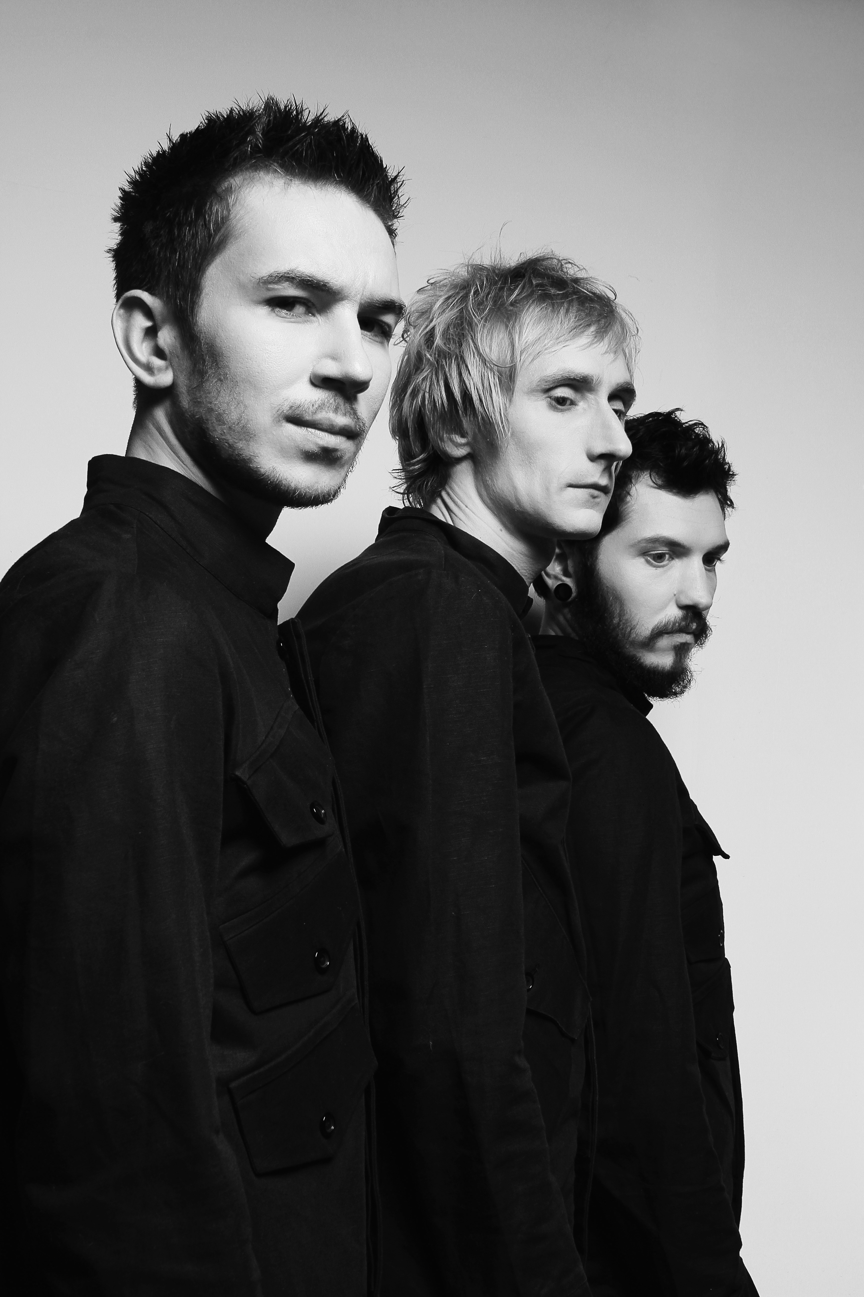 Cepasa band members